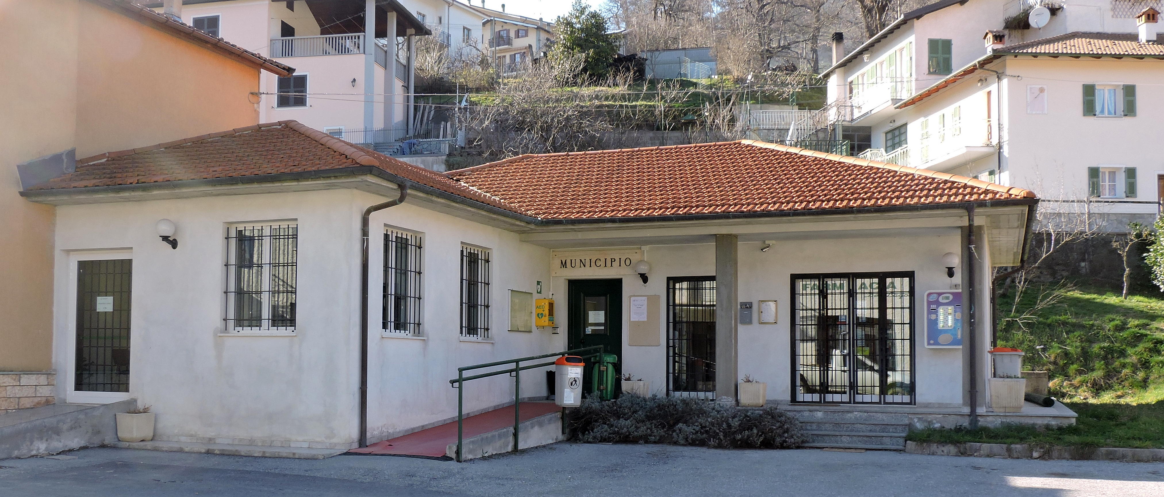 Osiglia (SV, Italy): town hall